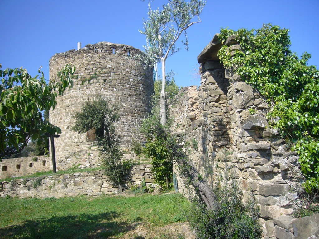 Ruines of the Castle of Montagut i Oix (Garrotxa, Catalonia) - Tower